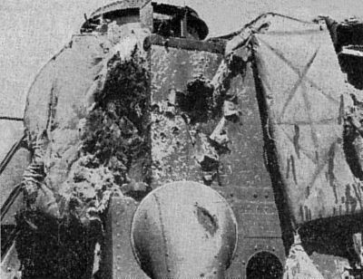 Plastic Armour does its job A ship returning from a scrap with its plastic armour damaged by enemy fire. The armour absorbed the impact of the shells, the underlying superstructure receiving less damage as a result. No casualties were taken.